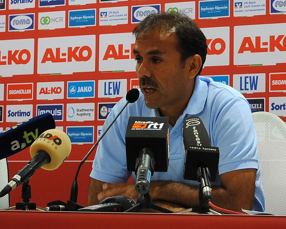 Jos Luhukay during press conference in August 2010